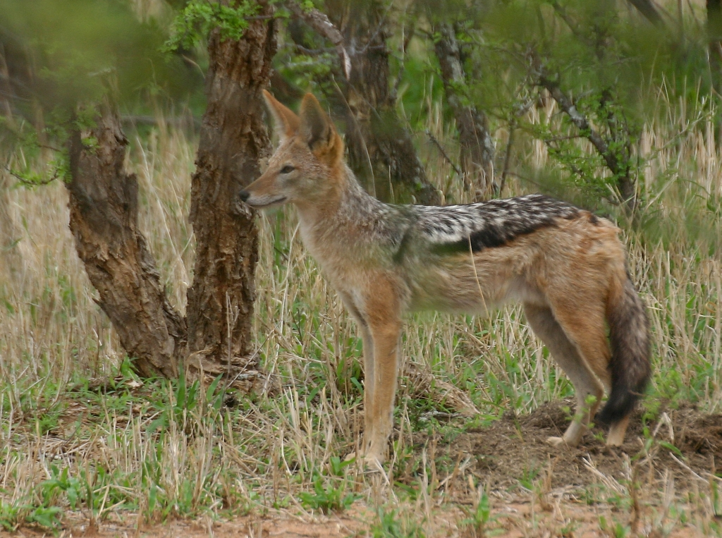 black backed jackal in South Africa photo self taken by Susann Eurich (Kilara), November 2005